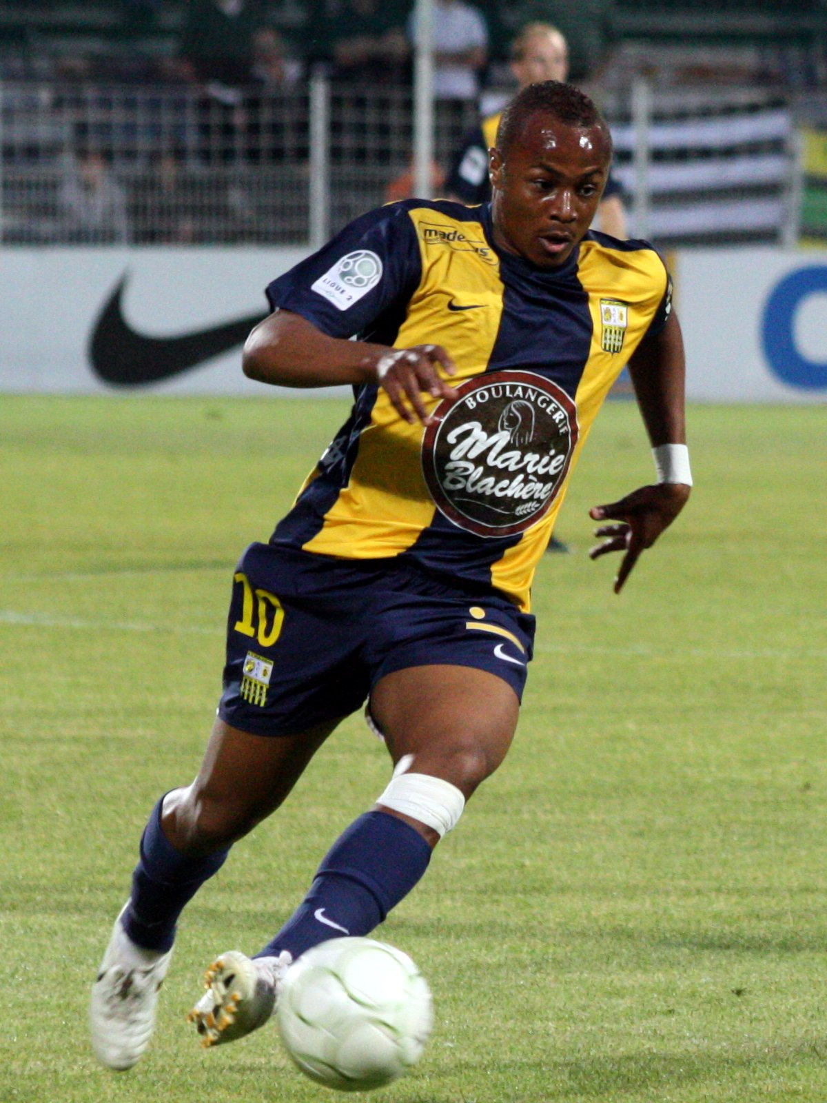 André Ayew, soccer player of AC Arles Avignon